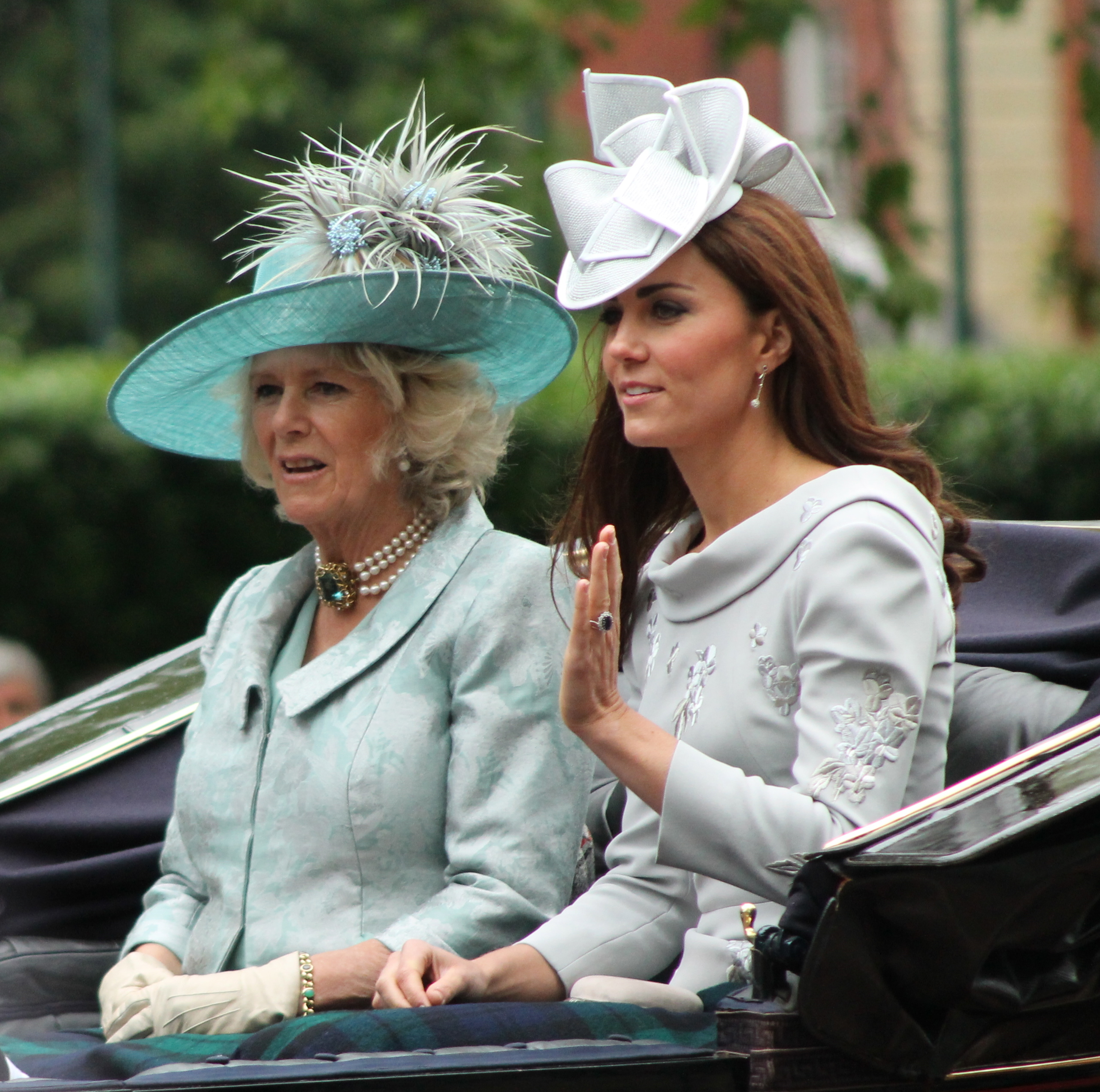 Duchesses of Cornwall & Cambridge, June 2012